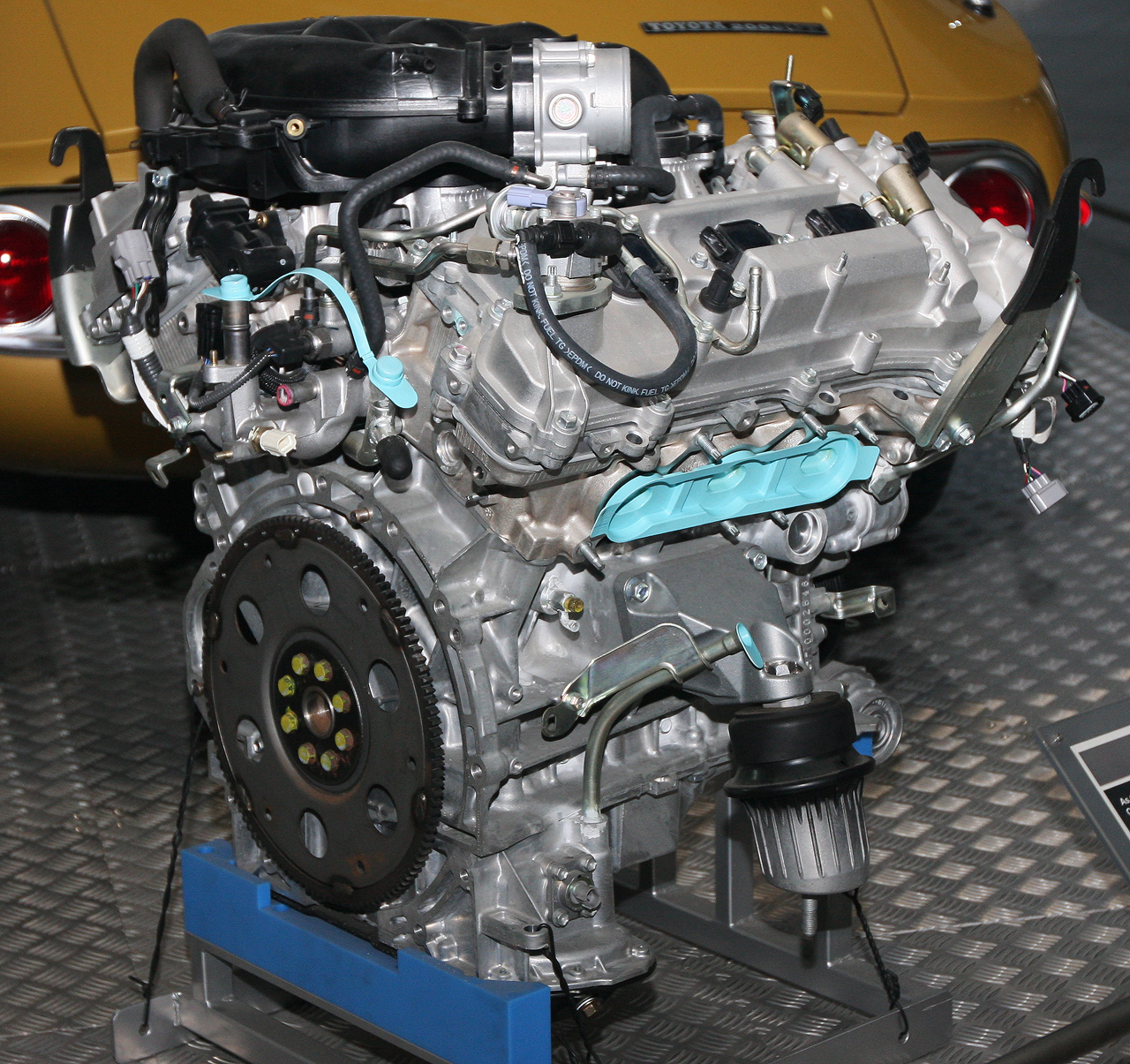 2004 Toyota 4GR-FSE Type engine. V6 2,499cc.